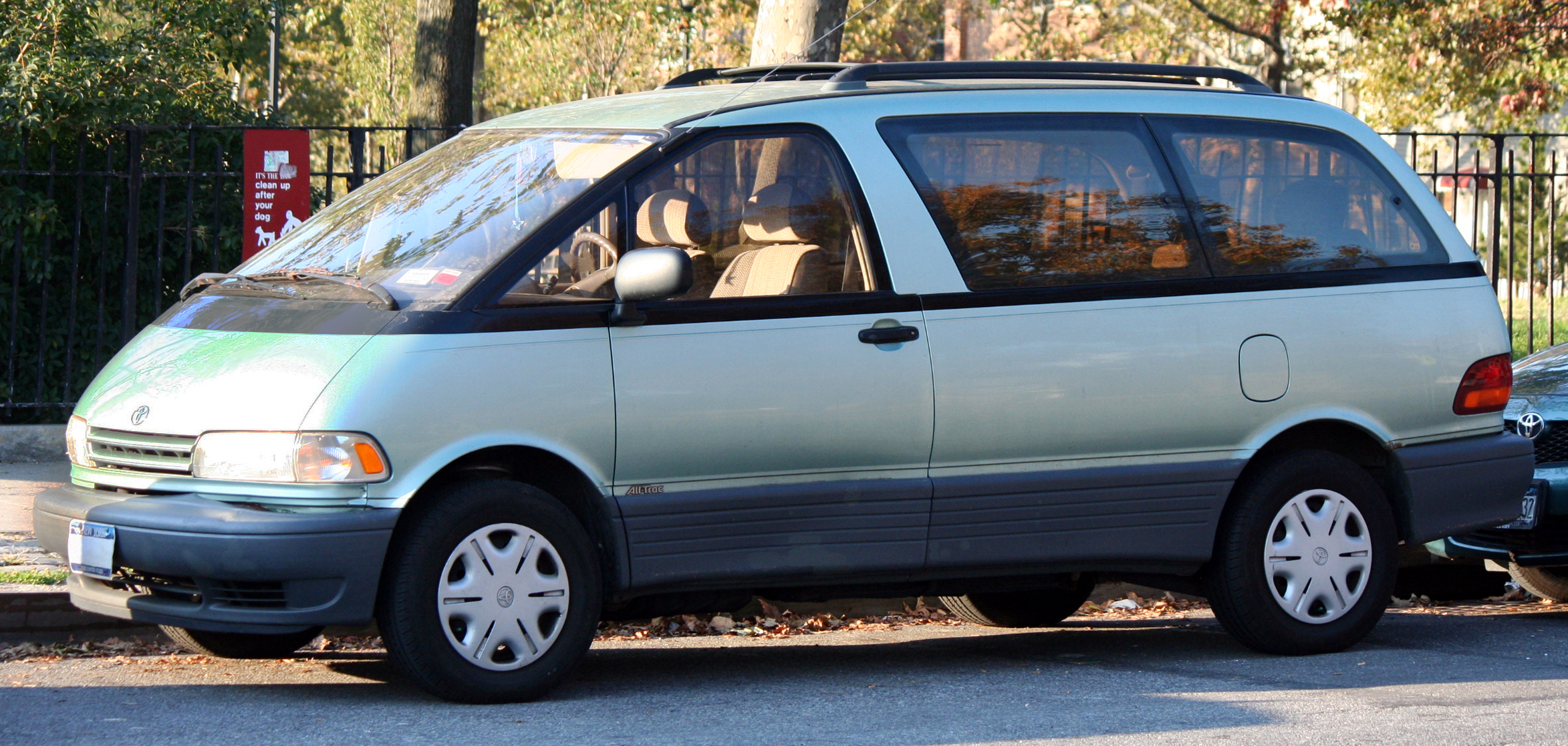 1997 Toyota Previa S/C AWD - a supercharged, all-wheel drive, mid-engined grocery getter.